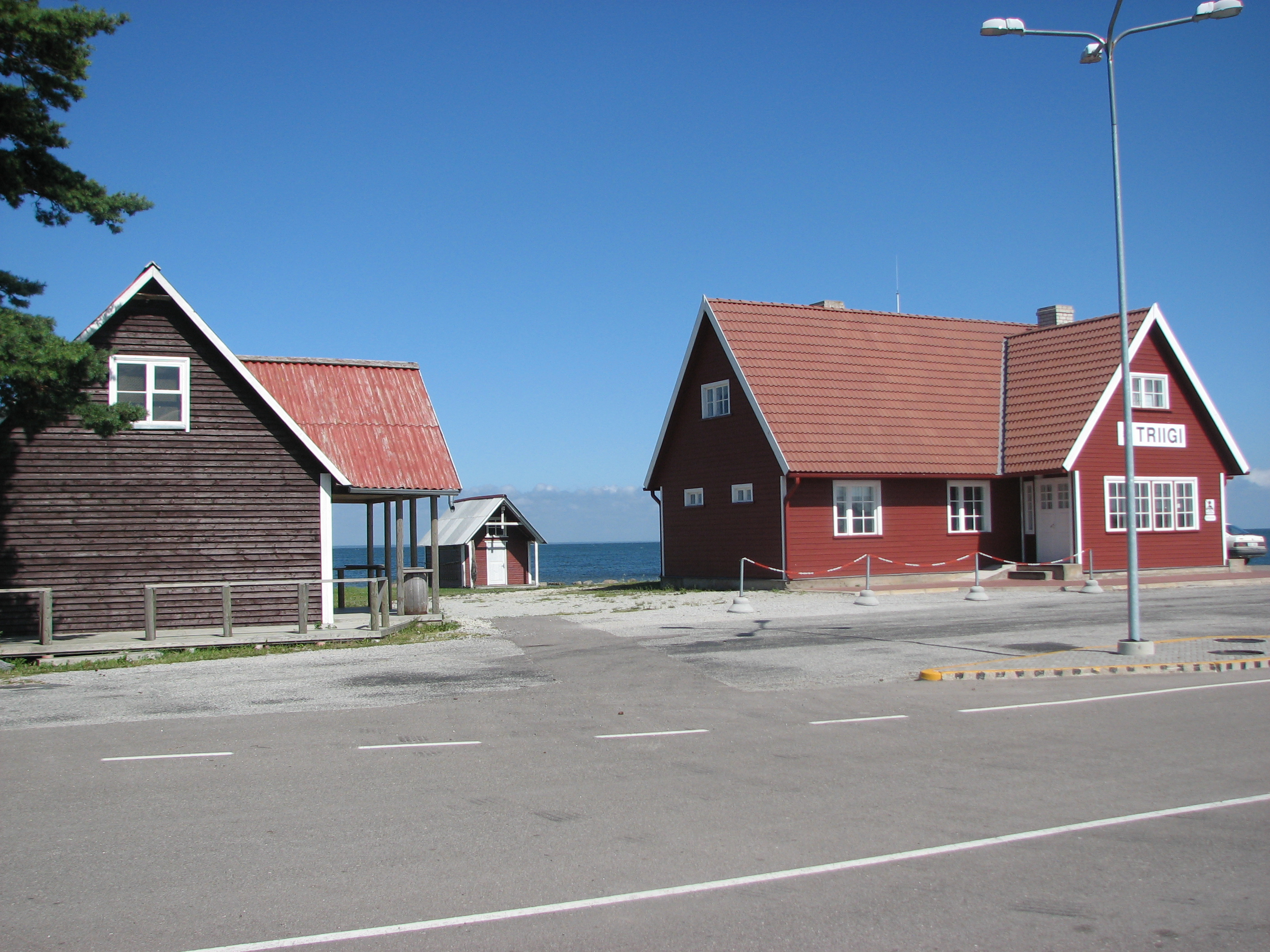 Harbour of Triigi, Saaremaa, Estonia